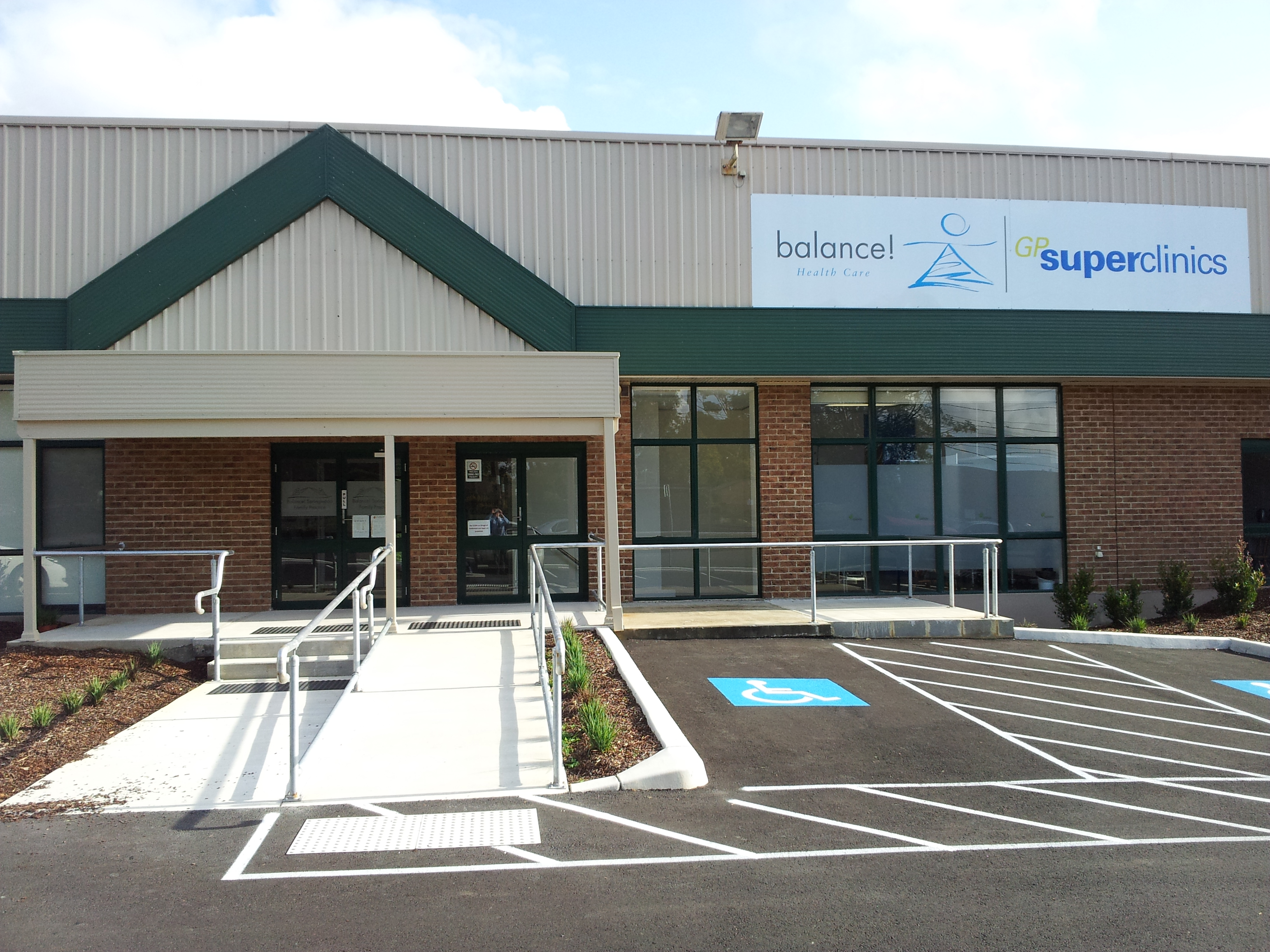 Front of the GP Superclinic on Ferguson Rd Springwood New South Wales Australia